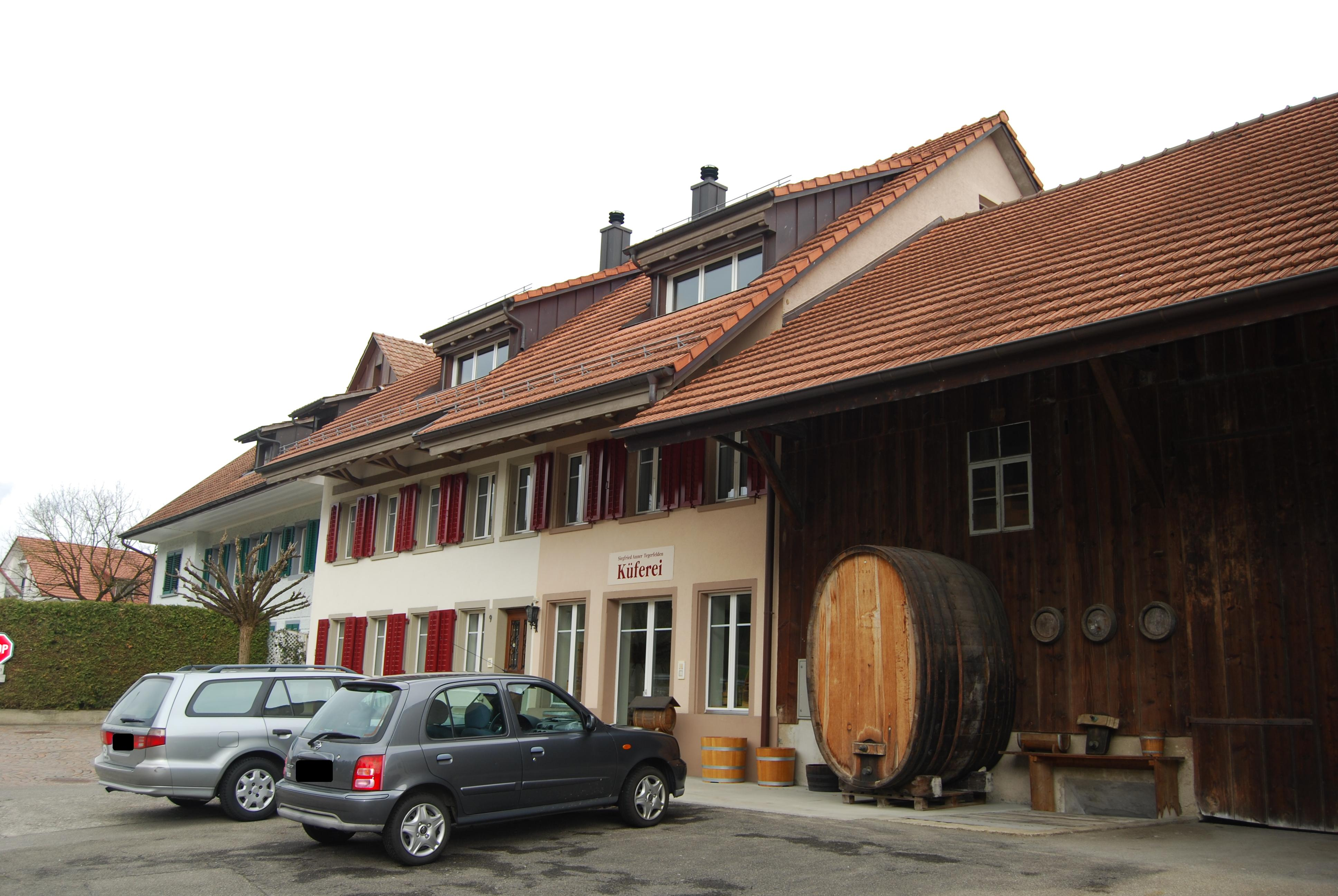 Tegerfelden, canton of Aargau, SwitzerlandEsperanto: Tegerfelden, Kantono Argovio, Svislando